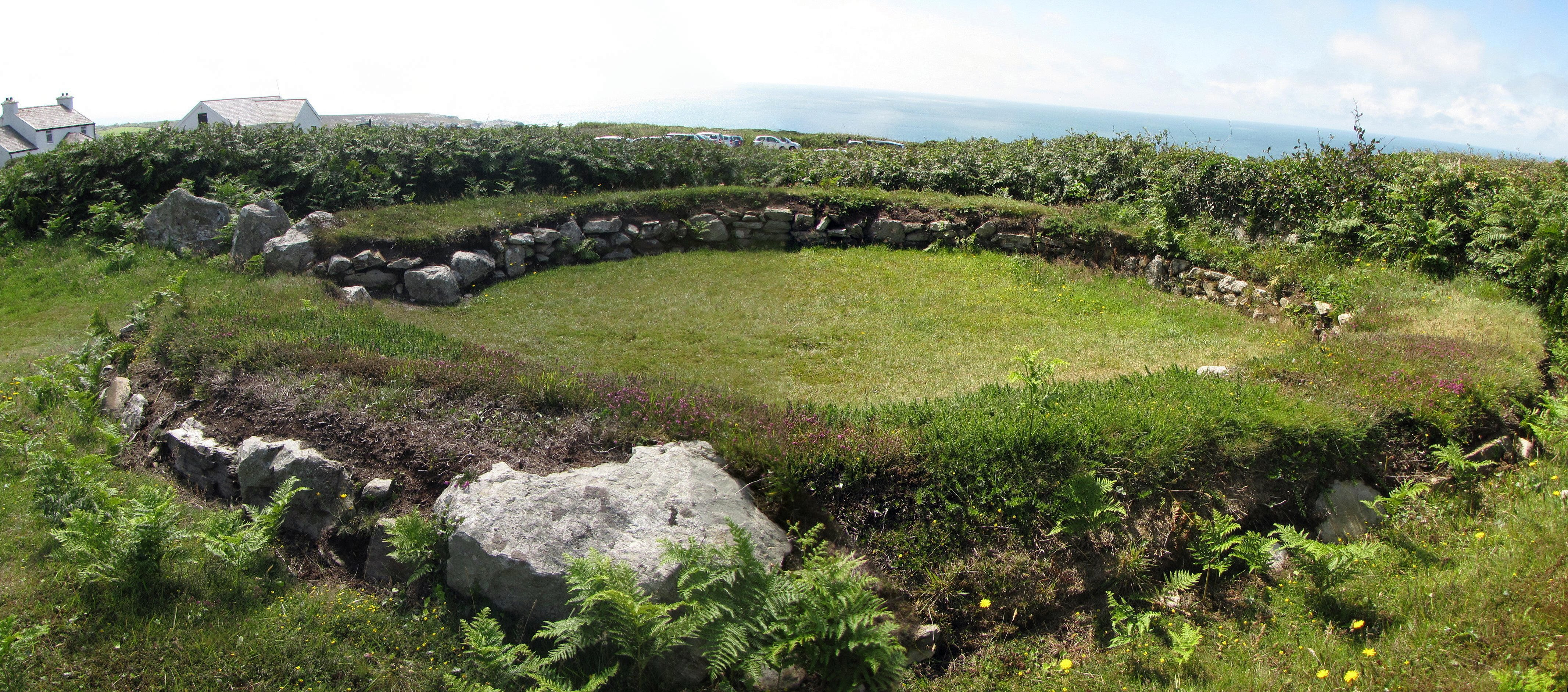 TyMawr Holyhead Mountain Hut Circles